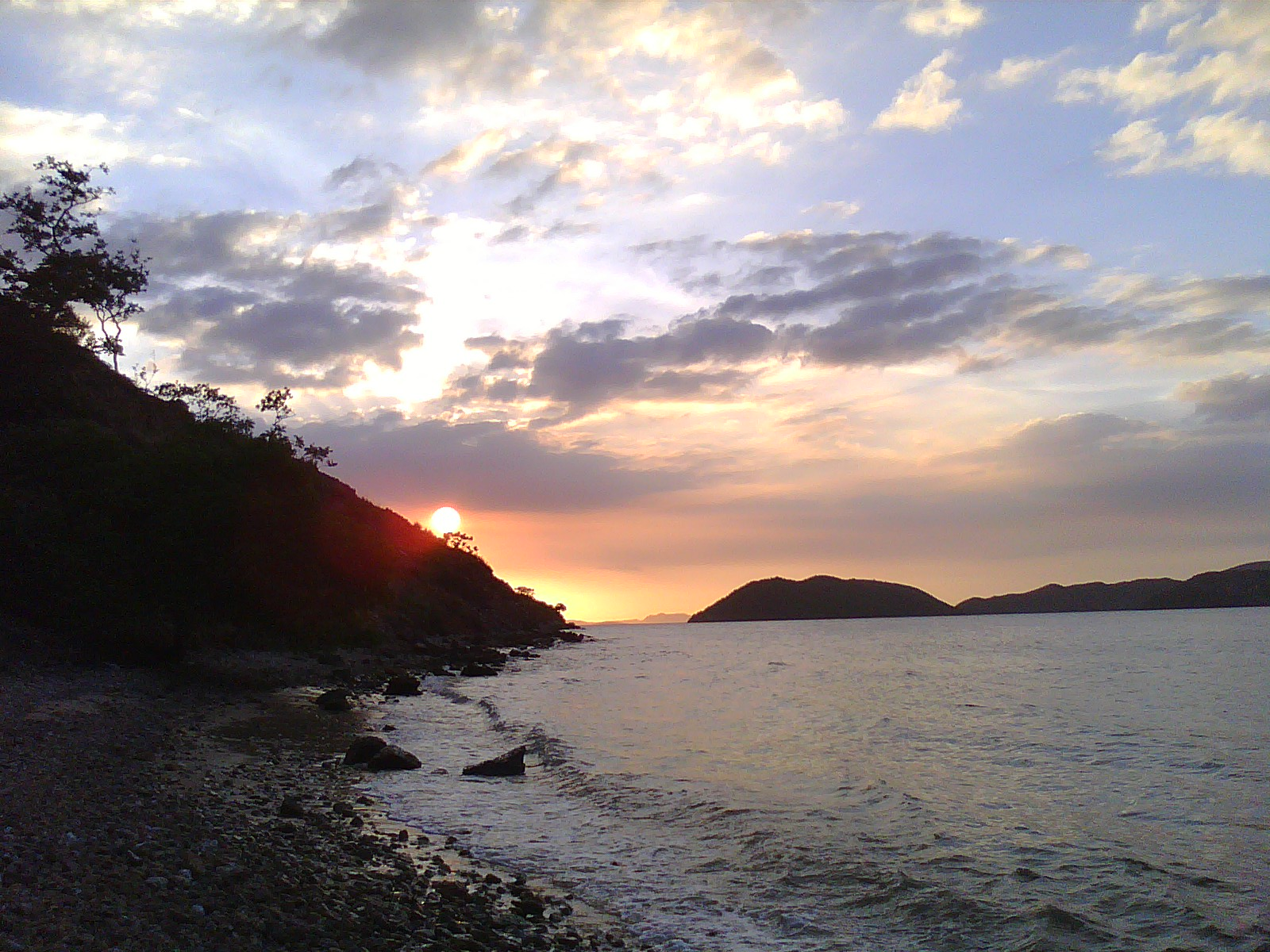 The Isla Caracas. Sucre, Mochima National Park. Venezuela.